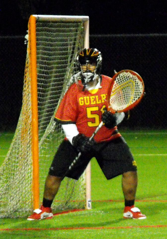 These are images of CUFLA action during the 2014 season and are taken by Devan Mighton.